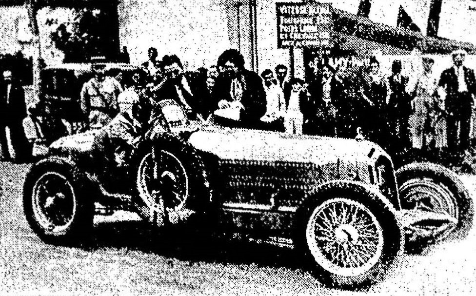 Hellé Nice and Alfa Romeo 8C Monza 2.3 litre in Grand Prix du Comminges 1934. Placed 8th